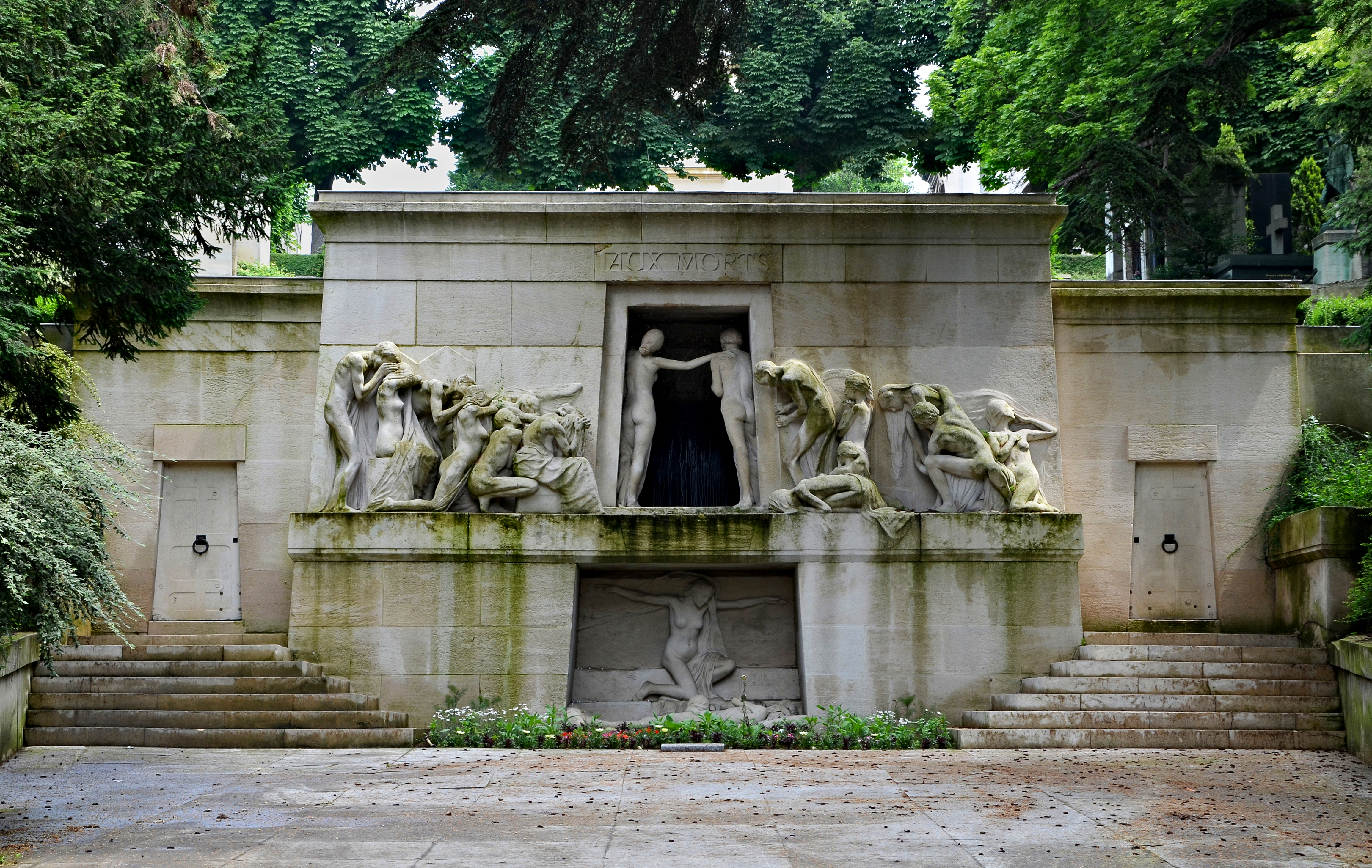 Memorial to the dead, Père-Lachaise cemetery, Paris, 20th arr., France. Albert Bartholomé (1848–1928) DescriptionFrench sculptor and painterDate of birth/death 29 August 1848 30 October 1928 / 31 October 1928 Location of birth/death Thiverval-Grignon ParisAuthority control : Q1389252 VIAF: 66738482 ISNI: 0000 0000 8390 3678 ULAN: 500022258 LCCN: no2005084978 WGA: BARTHOLOMÉ, Albert WorldCat creator QS:P170,Q1389252